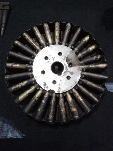 An original Lewis machinegun drum magazine at the 'In Flanders Fields' museum.